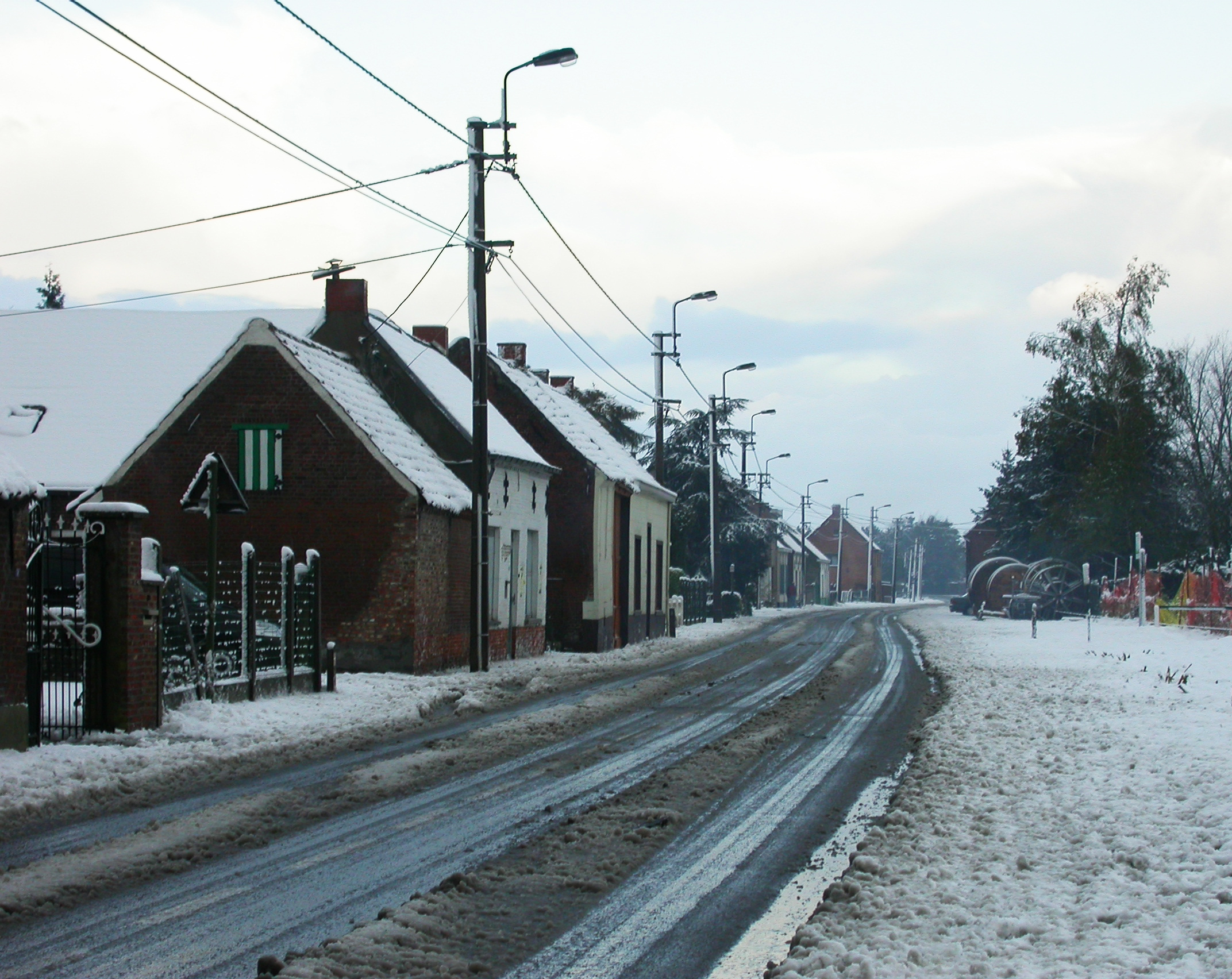 Kamershoek, Berlare (left) and Zele (right)